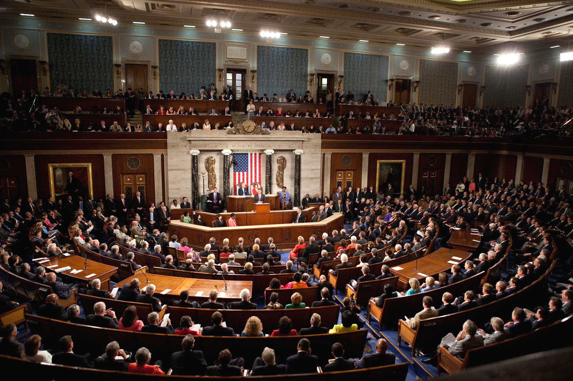 President Barack Obama speaks to a joint session of Congress regarding health care reform